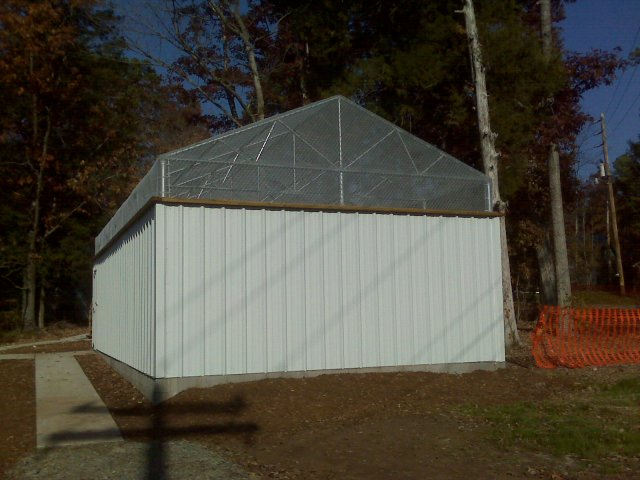 unc aviary